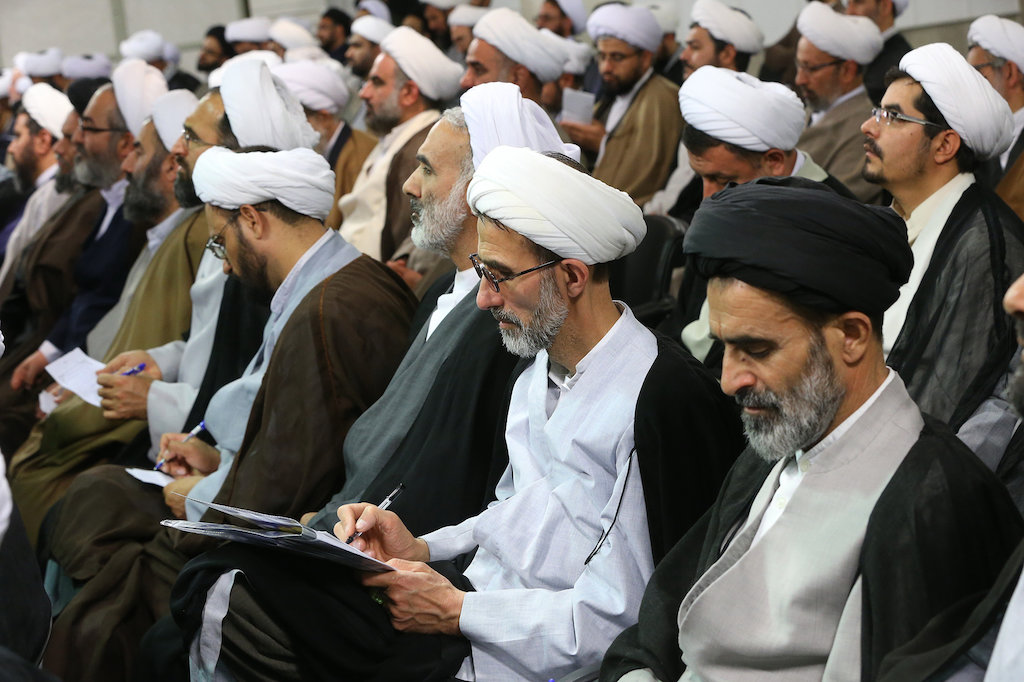 Qom Seminary's students met Ali Khamenei on 15 March 2016.